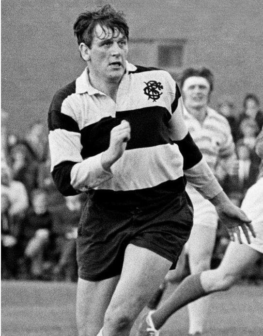 Peter Brown, Scotland Rugby Captain